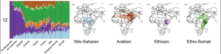 Ethio-Somali component in select populations